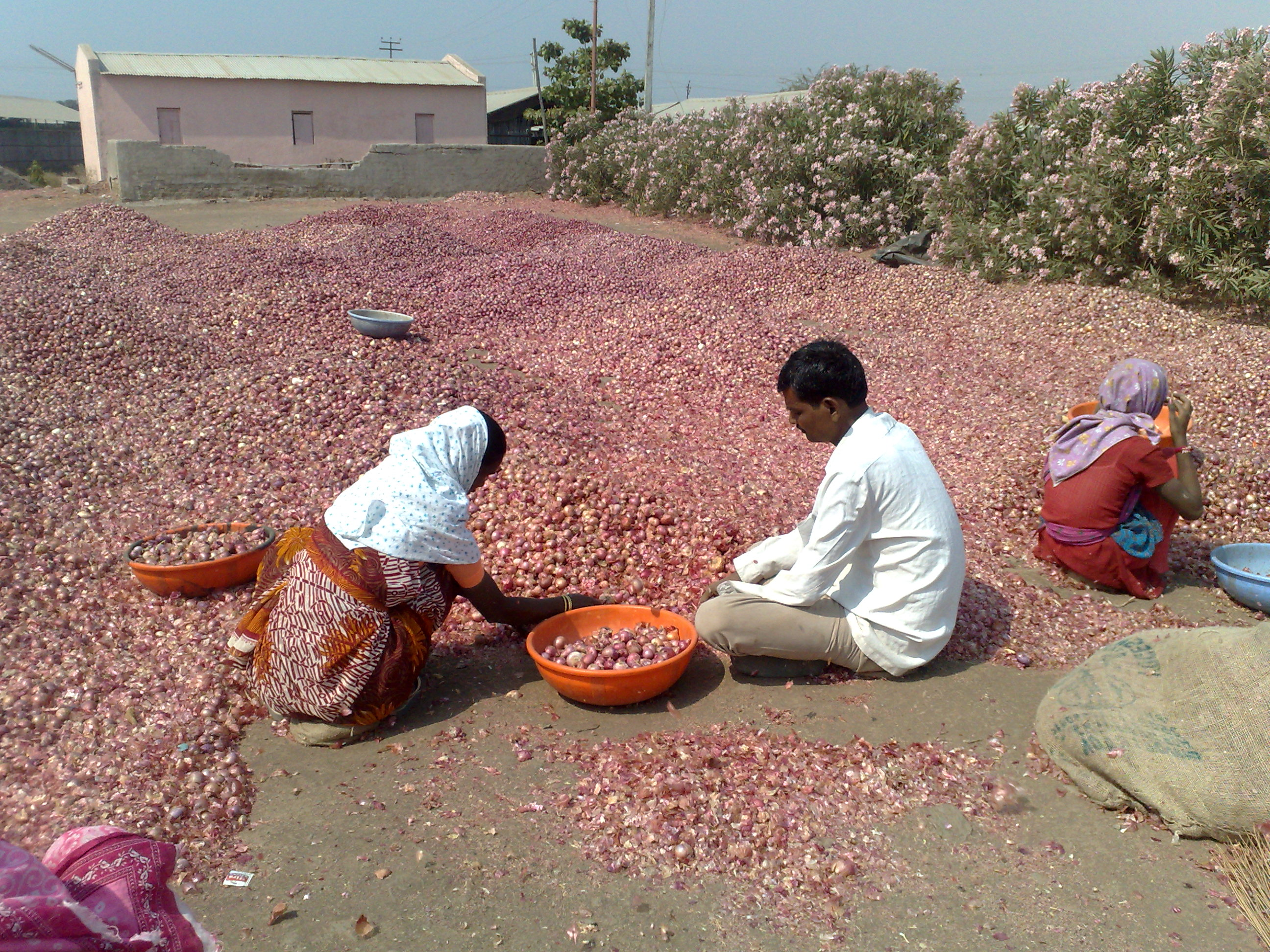 labourers grading and cleaning onion